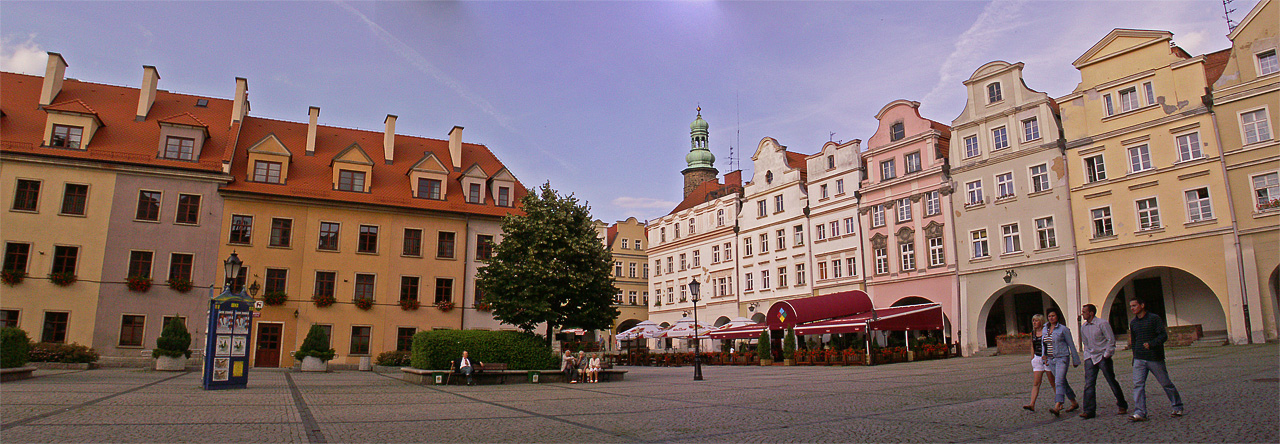 Townhall square in Jelenia Góra